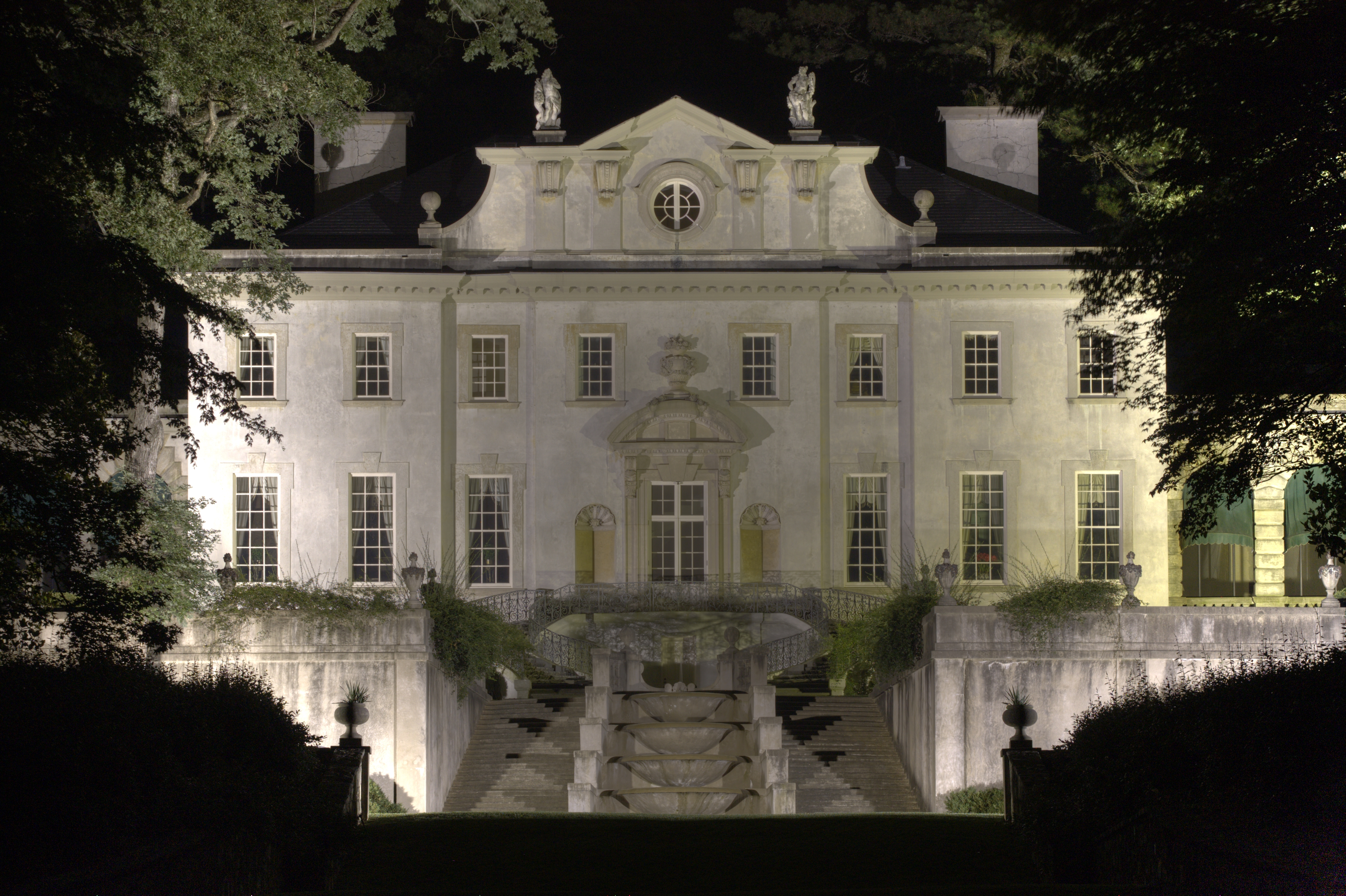 Swan House in Buckhead